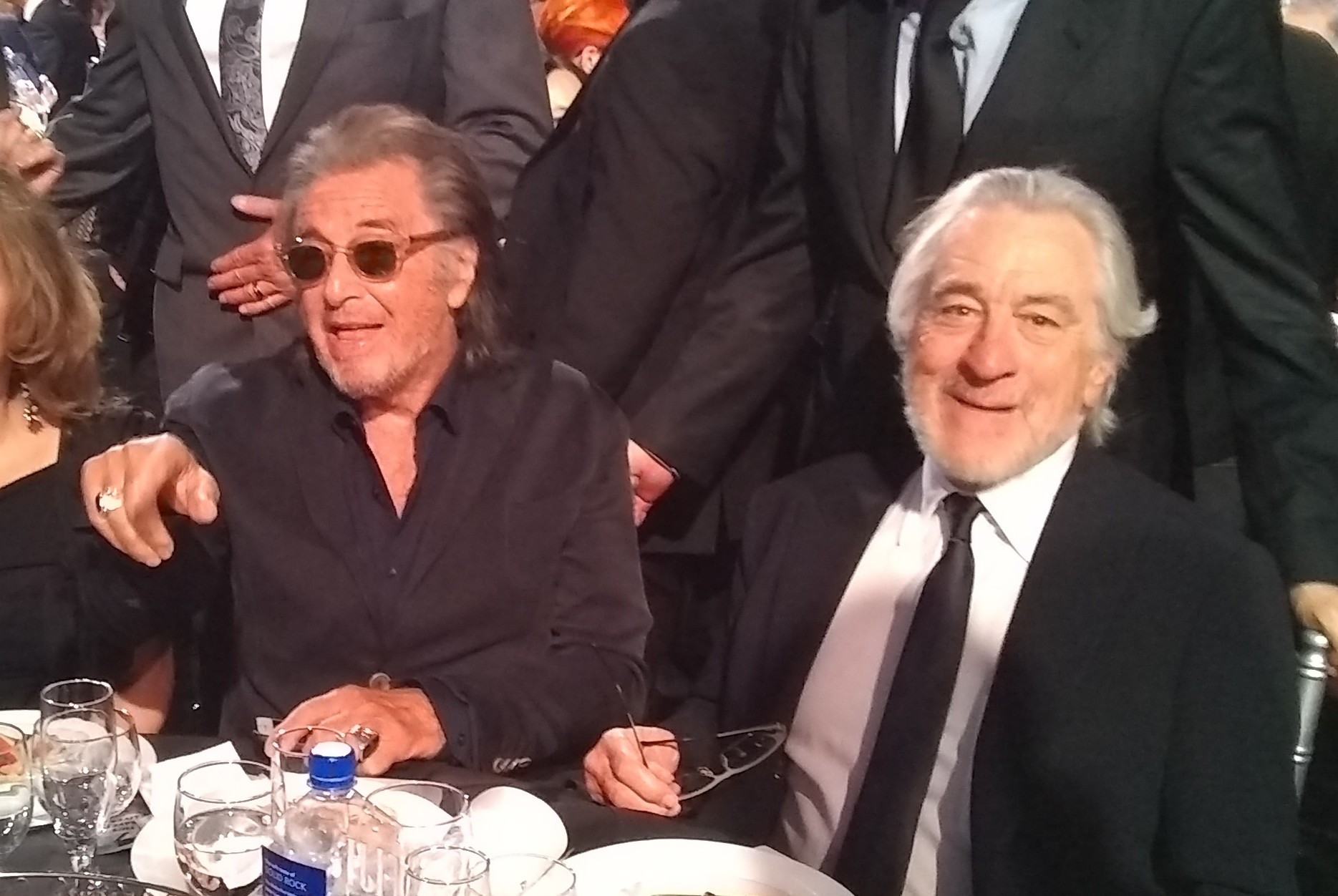 The “The Irishman” table with actors Al Pacino and Robert De Niro during a commercial break in the live broadcast of the 25th annual Critics’ Choice Awards in Santa Monica, California on January 12th, 2020.